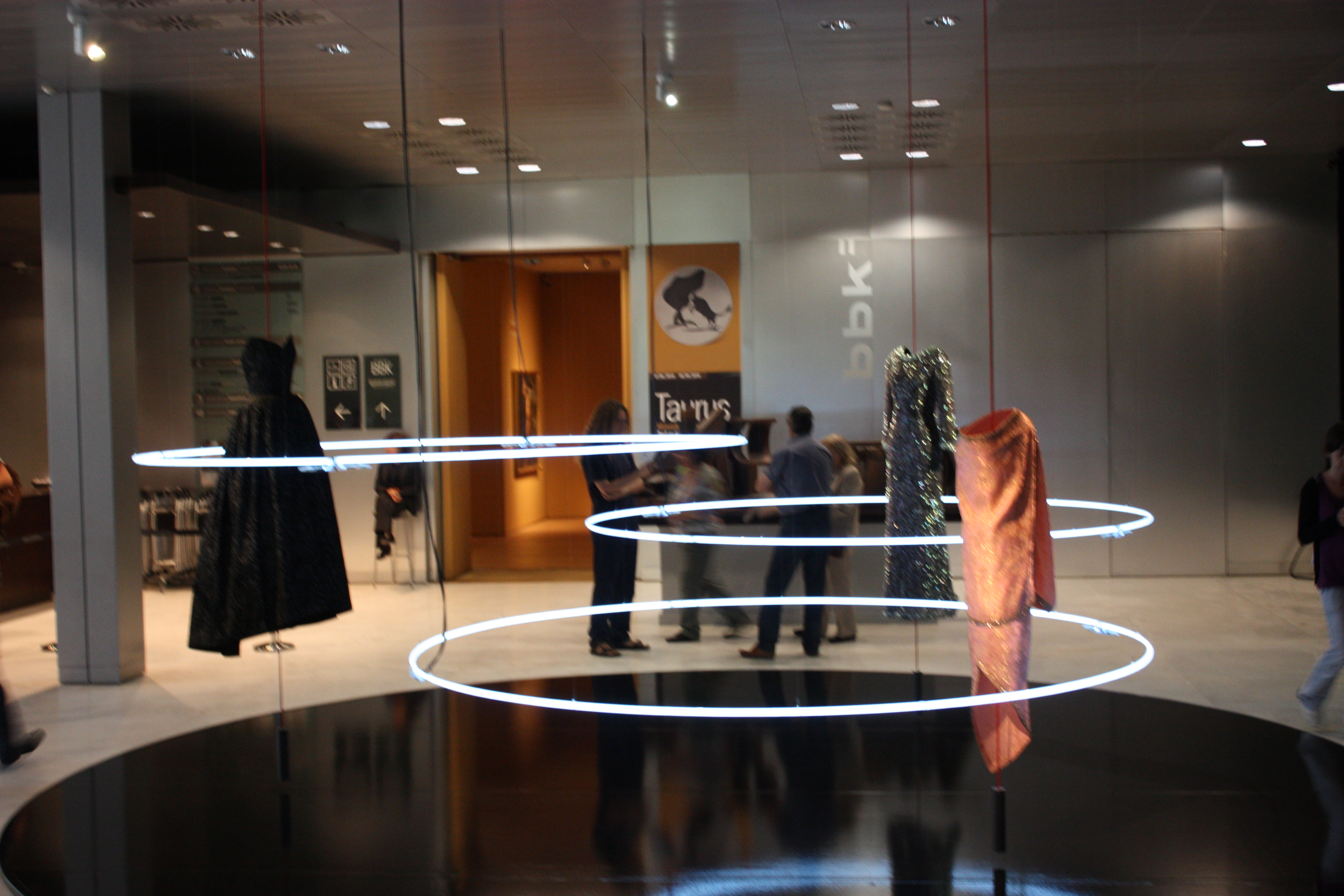 Balenciaga exhibit, Fine Arts Museum (Museo de Bellas Artes de Bilbao), Bilbao, Biscay, Spain, July 2010